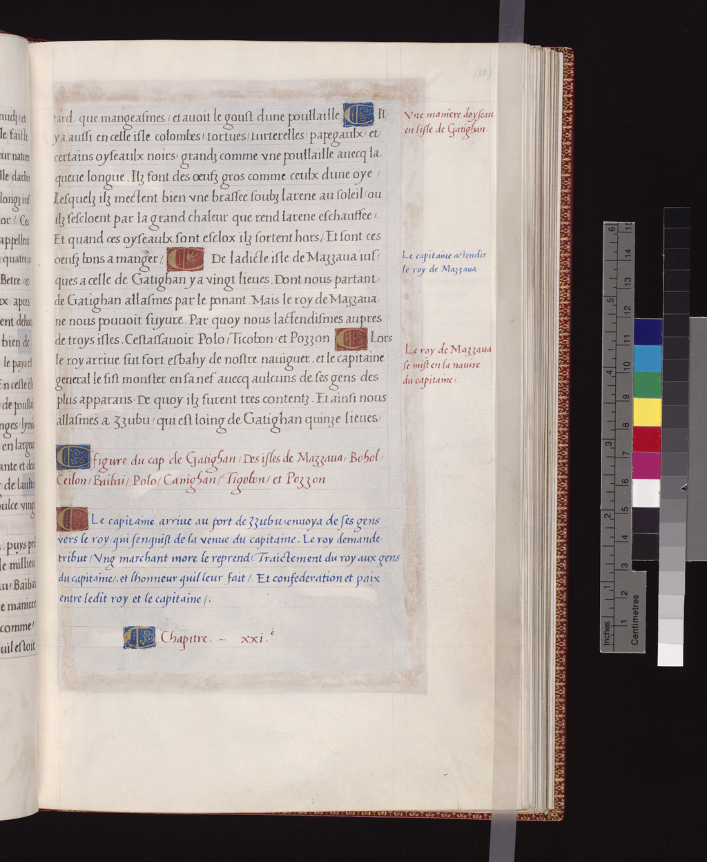 Page includes account of travel to and stay at Camotes Islands